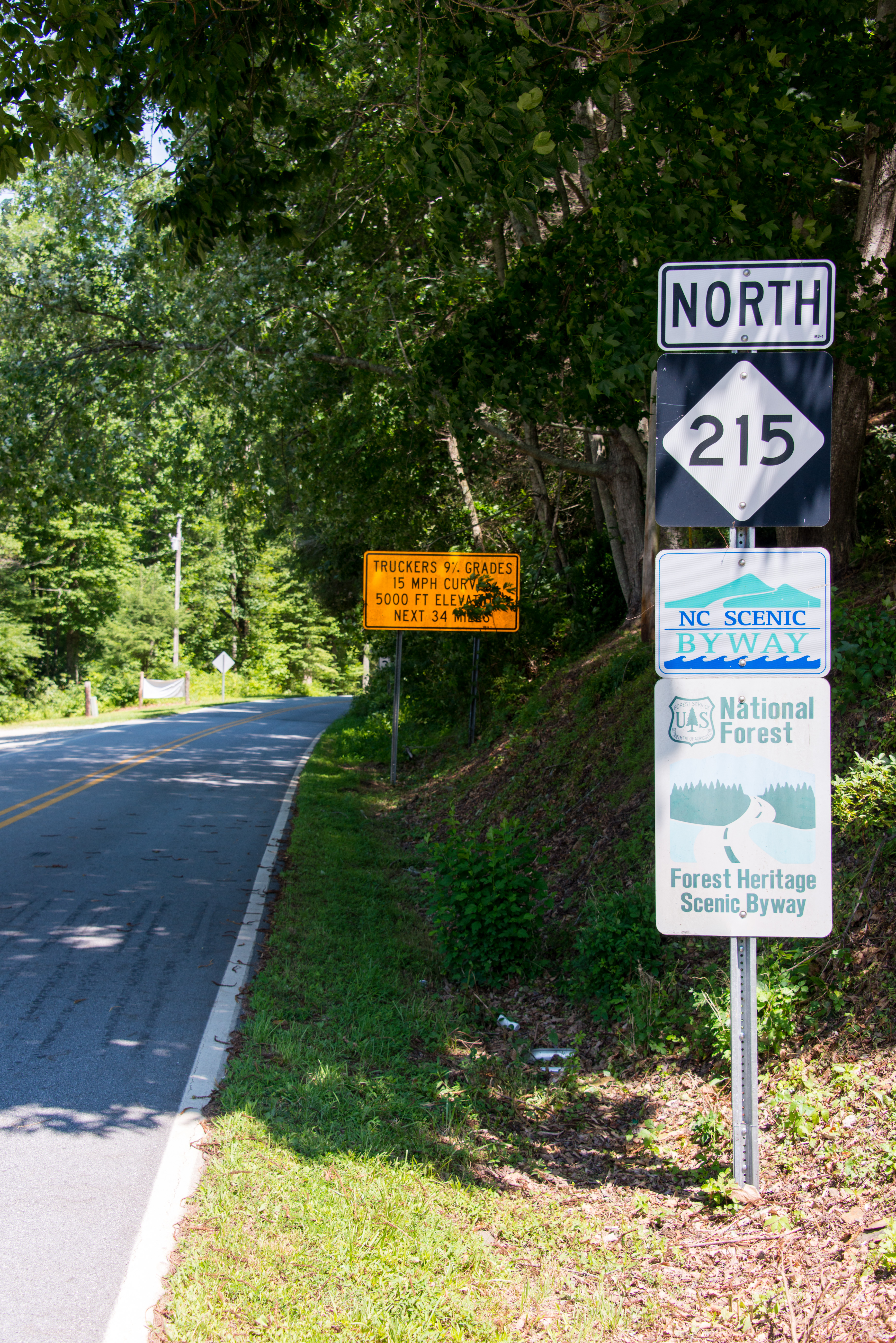 First sign northbound on North Carolina Highway 215, from US 64, near Rosman. It is part of the Forest Heritage Scenic Byway. Further behind is a truck advisory sign warning of 9% grades and 15mph curves for the next 34 miles.